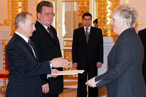 ALEXANDER HALL, GRAND KREMLIN PALACE. Ambassador of the Republic of Estonia Marina Kaljurand presents her letter of credentials.